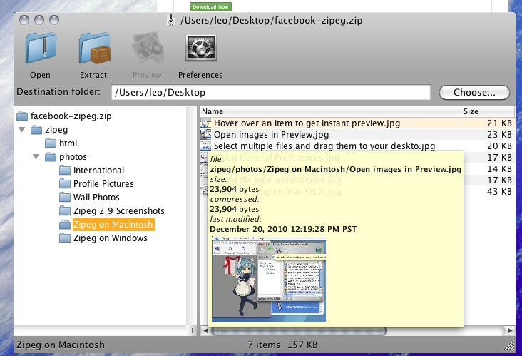 Screenshot of Zipeg 2.9.2 on Mac OS X 10.6.5